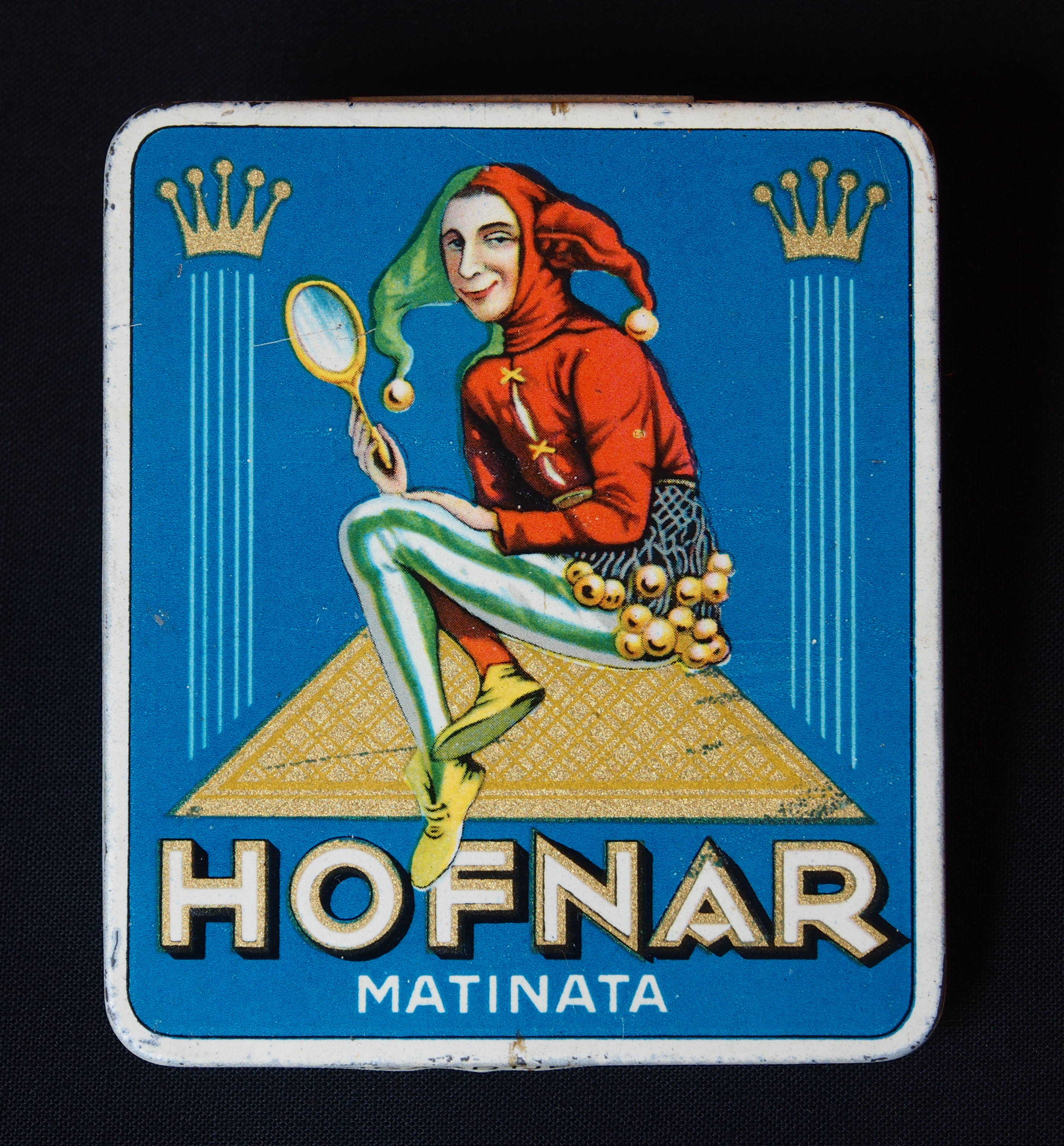 Very old product that is not produced and not sold any more.